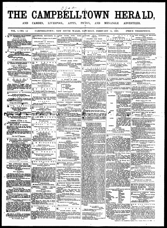 The front page of the Campbelltown Herald on 14 February 1880.